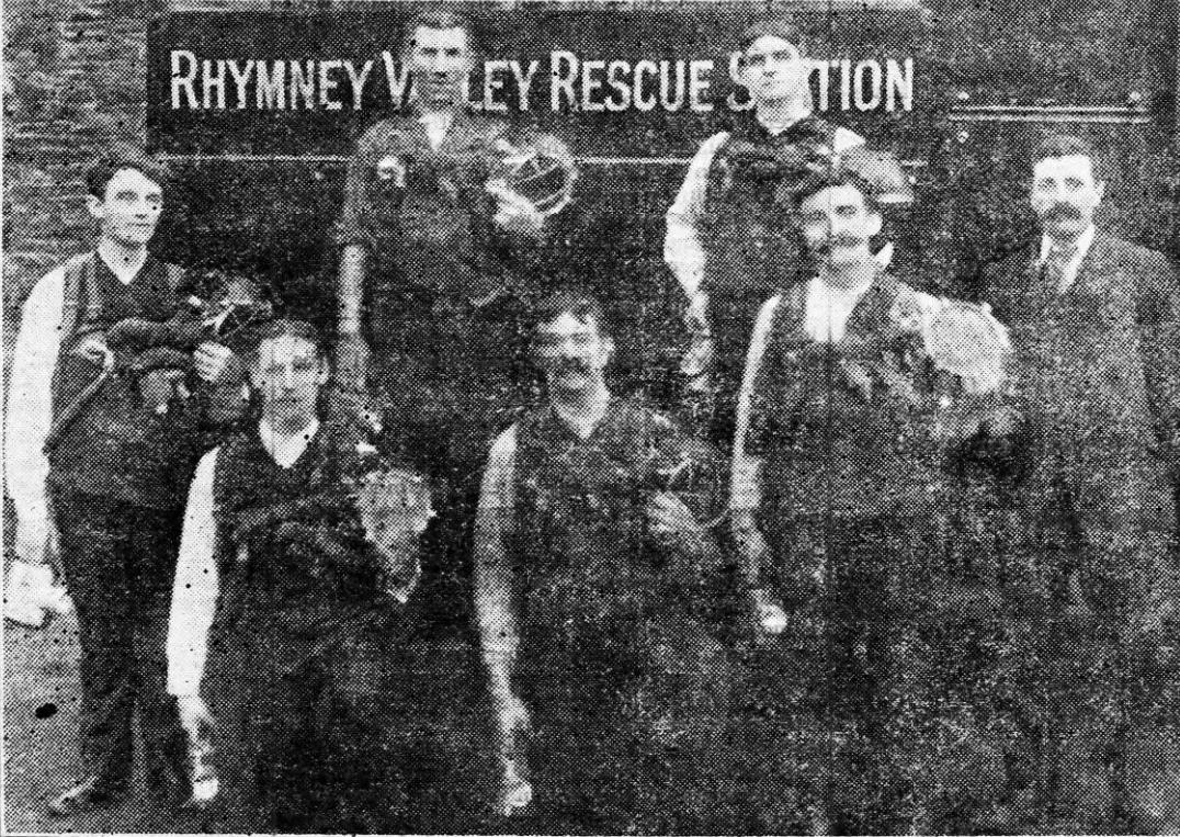 Rescuers from Rhymeny, who assisted at the Senghenydd disaster, 1913